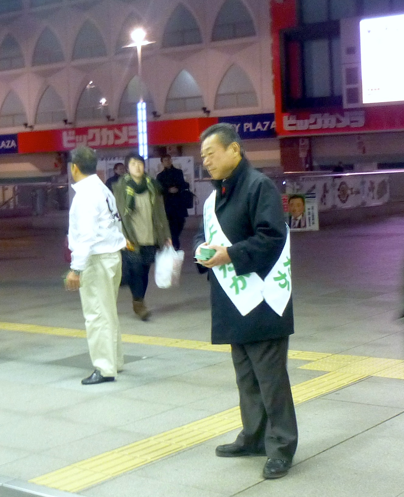 Yoshitaka Sakurada, at Kashiwa station